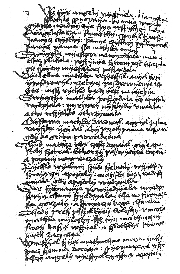 Beginning of the Już się anjeli wiesielą by Władysław z Gielniowa, about 15th century.